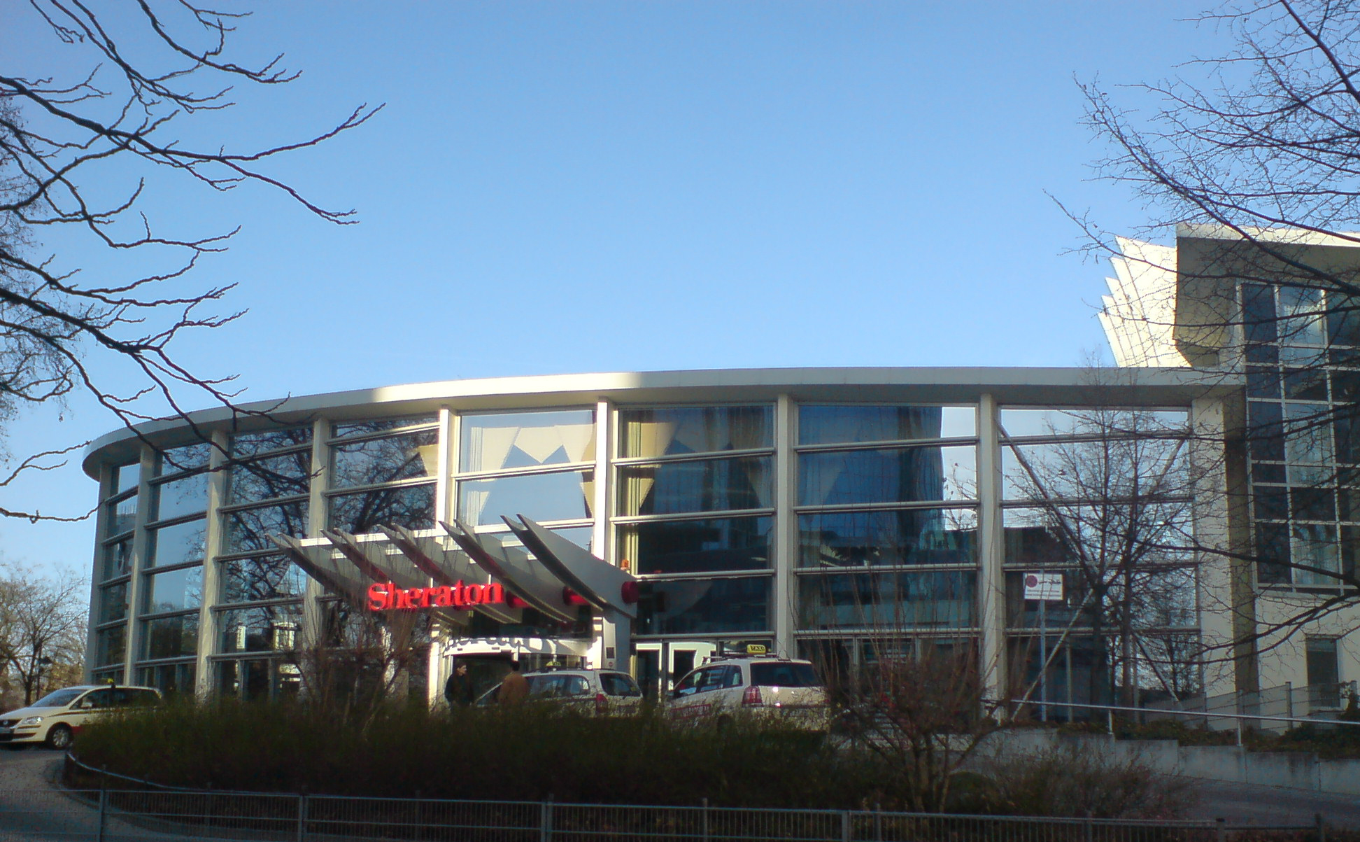 Sheraton Offenbach, The entrance building designed by Adolf Bayer (1962)